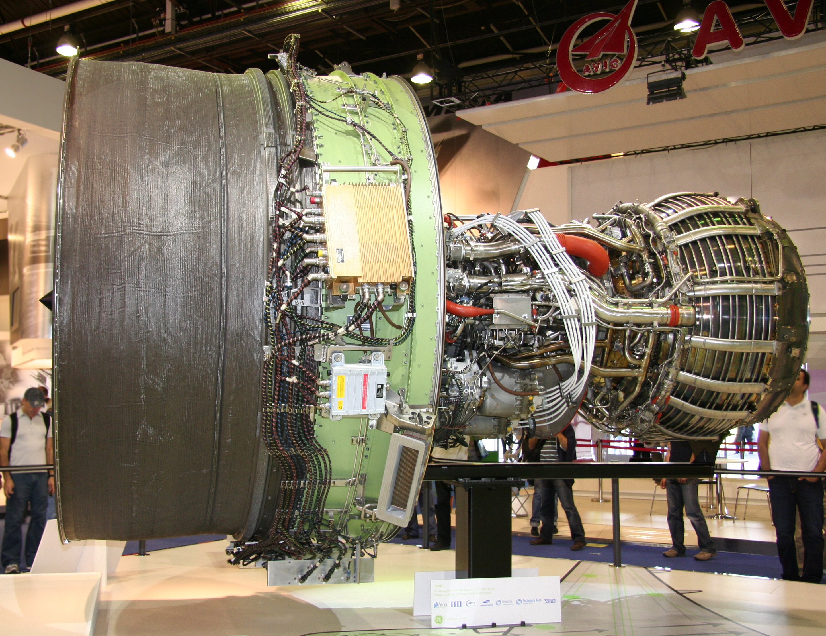 General Electric GEnx - Paris Air Show 2009